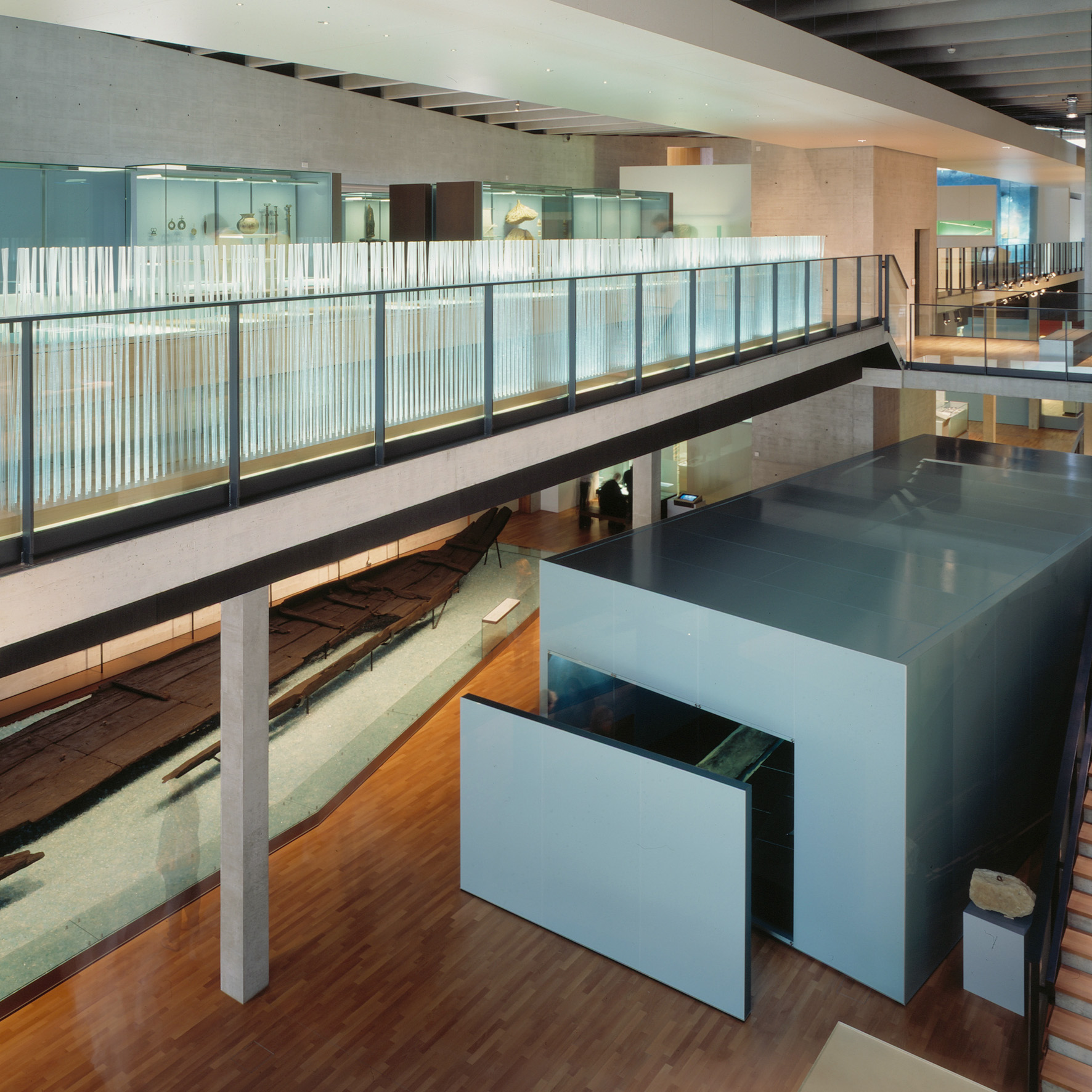 The Laténium. A one-size volume through which bridges, light games and perspectives bound ages together. Picture by Y. André / Laténium